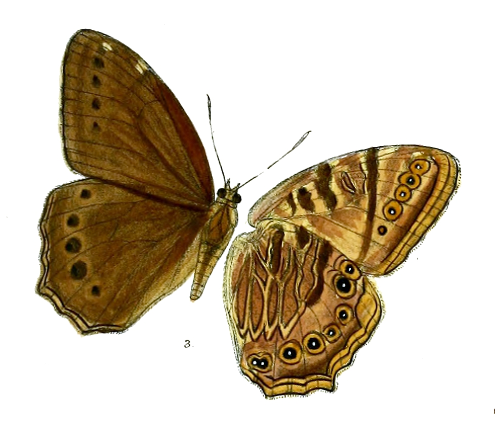 Neope yama